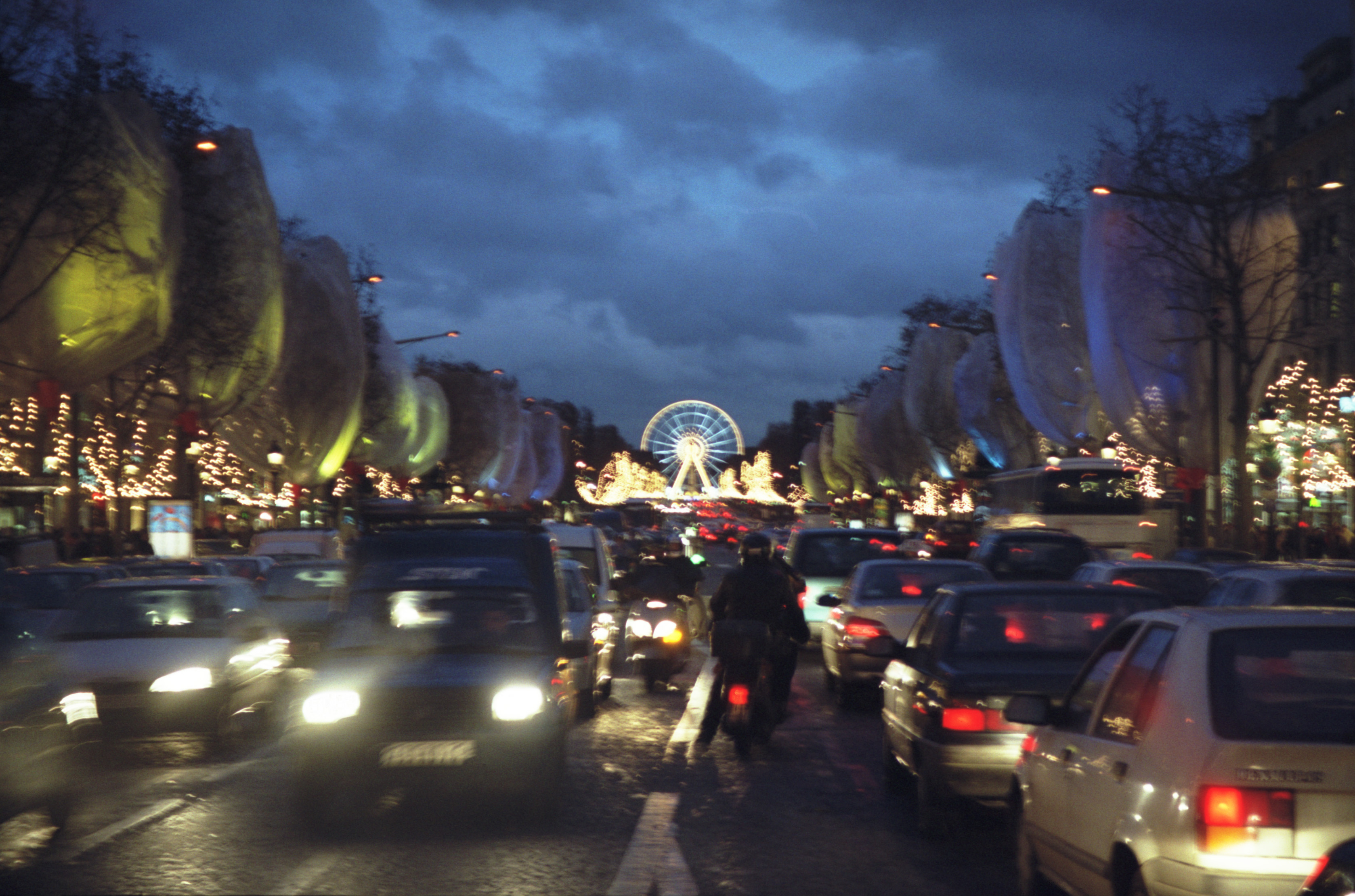 View along the Champs-Élysées, Paris, towards Place de la Concorde.